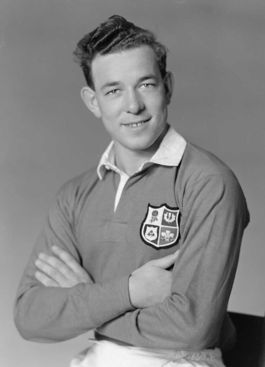 K D Mullen, captain of the British Lions rugby union team